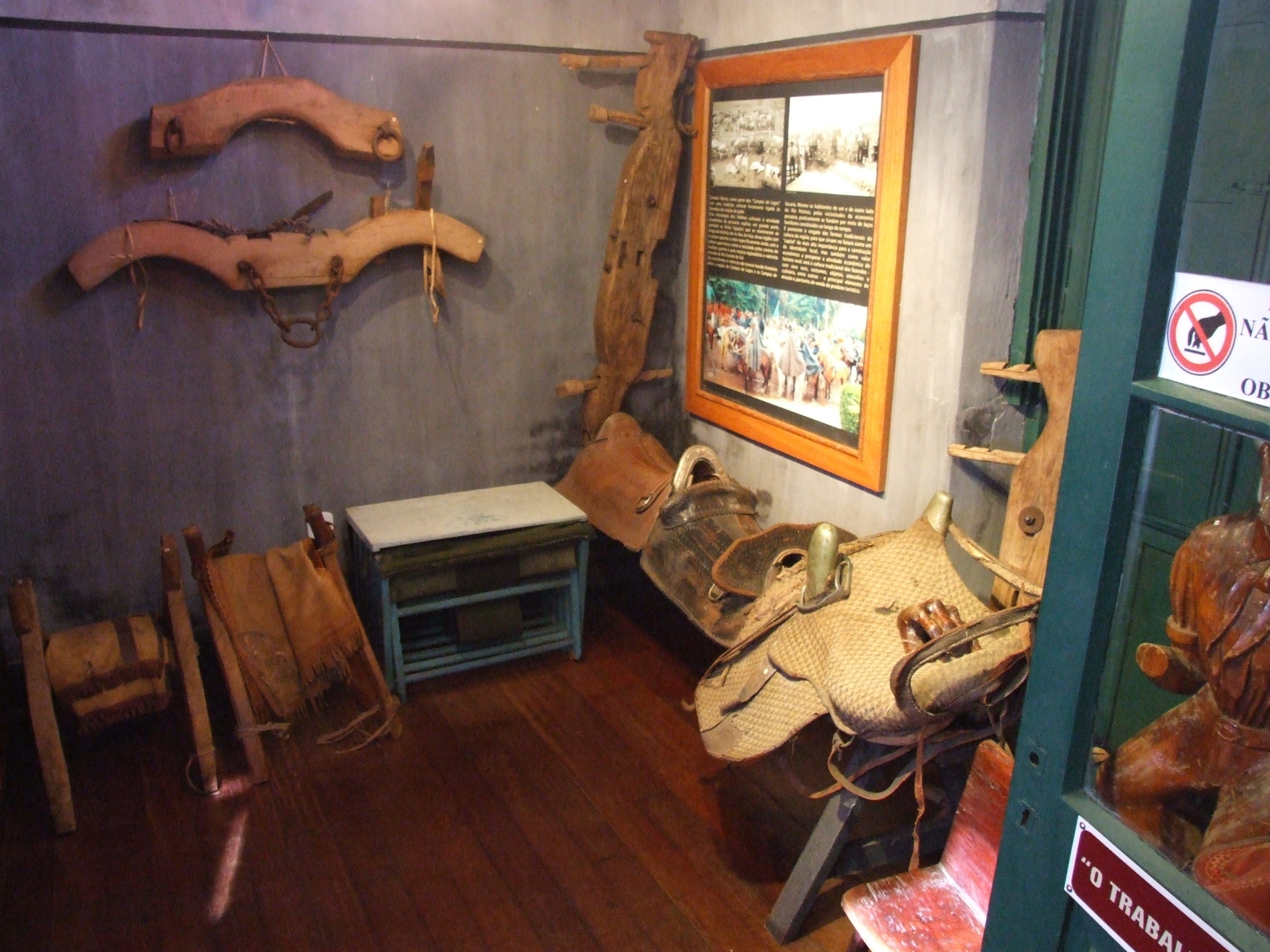 Equipment for animals riding and traction on display at the Municipal Historical Museum of Campos Novos, Santa Catarina, Brazil